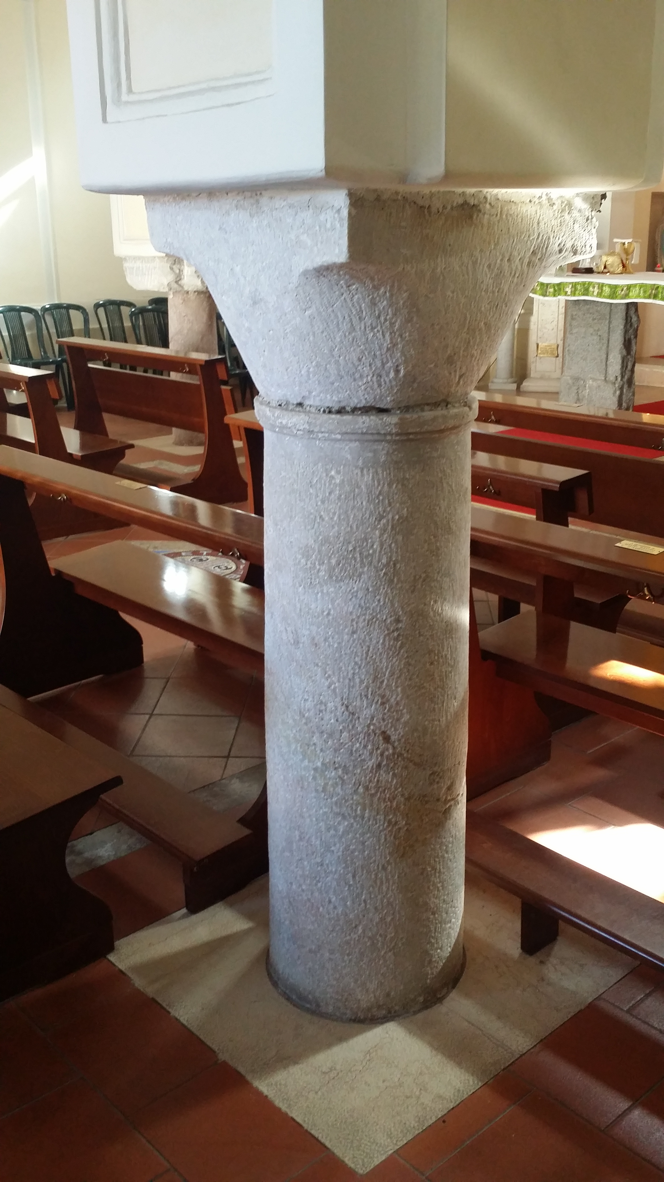 Ancient column of the primitive church of San Benedetto da Norcia incorporated into the new one